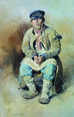 Sergey Vinogradov (1870-1938). The Day labor, 1897. Oil on Canvas 68.5 x 49 cm. Tretyakov Gallery